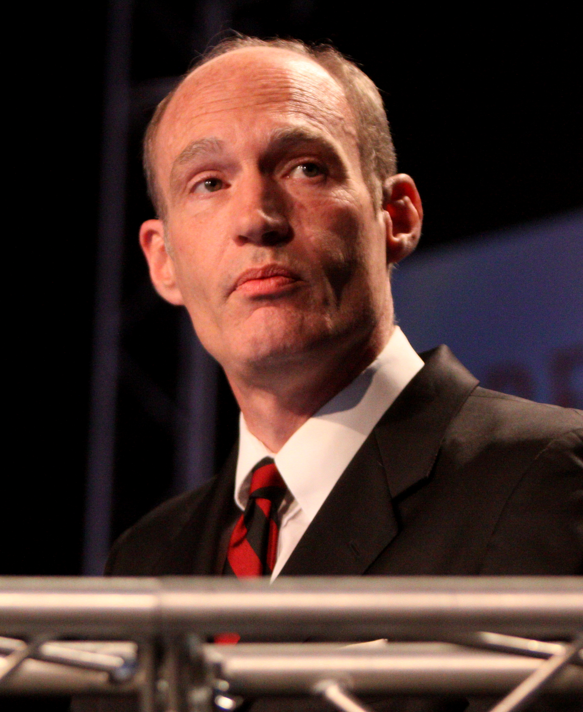 Thaddeus McCotter at the Ames Straw Poll in Ames, Iowa.